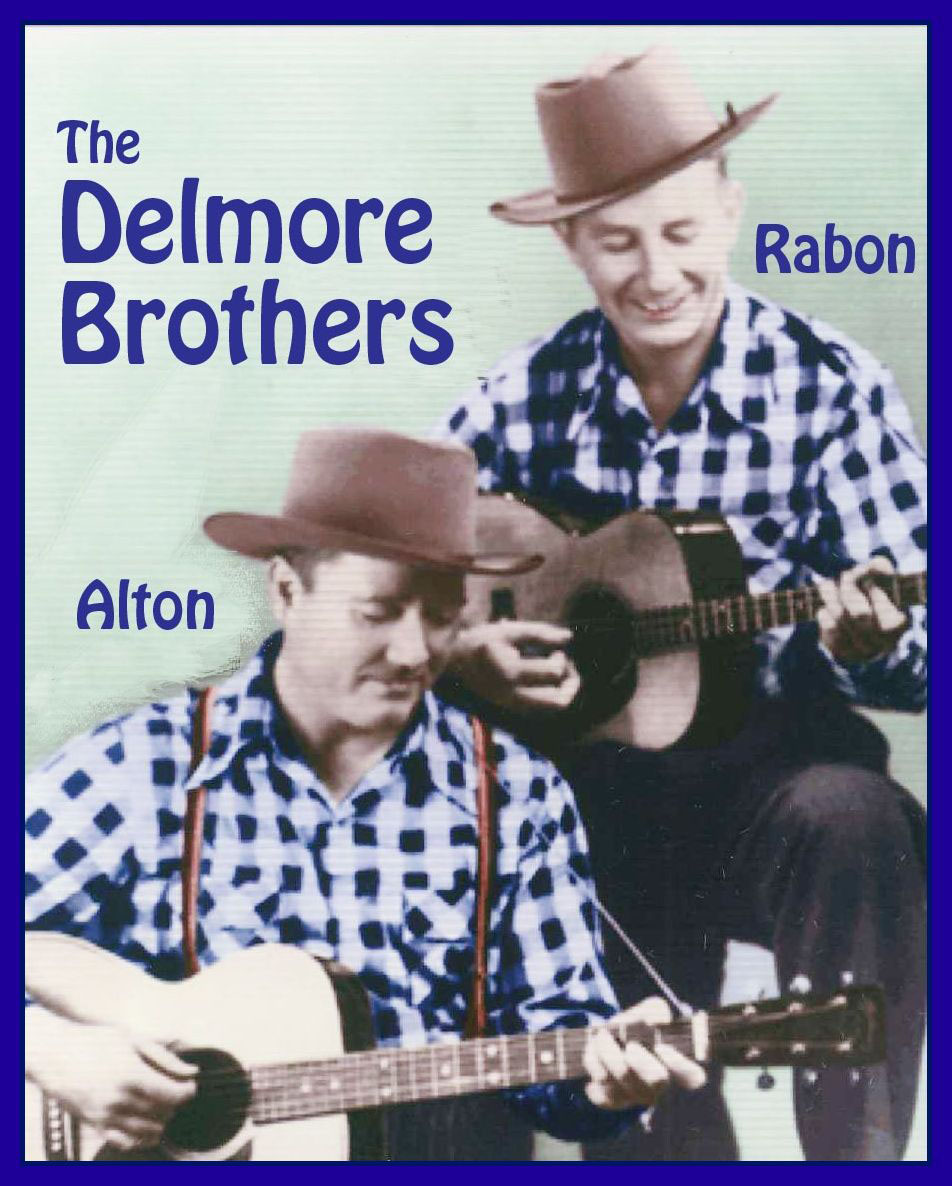 Delmore Brothers picture